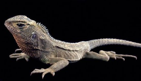 Adult male of Enyalioides rubrigularis (QCAZ 8456).